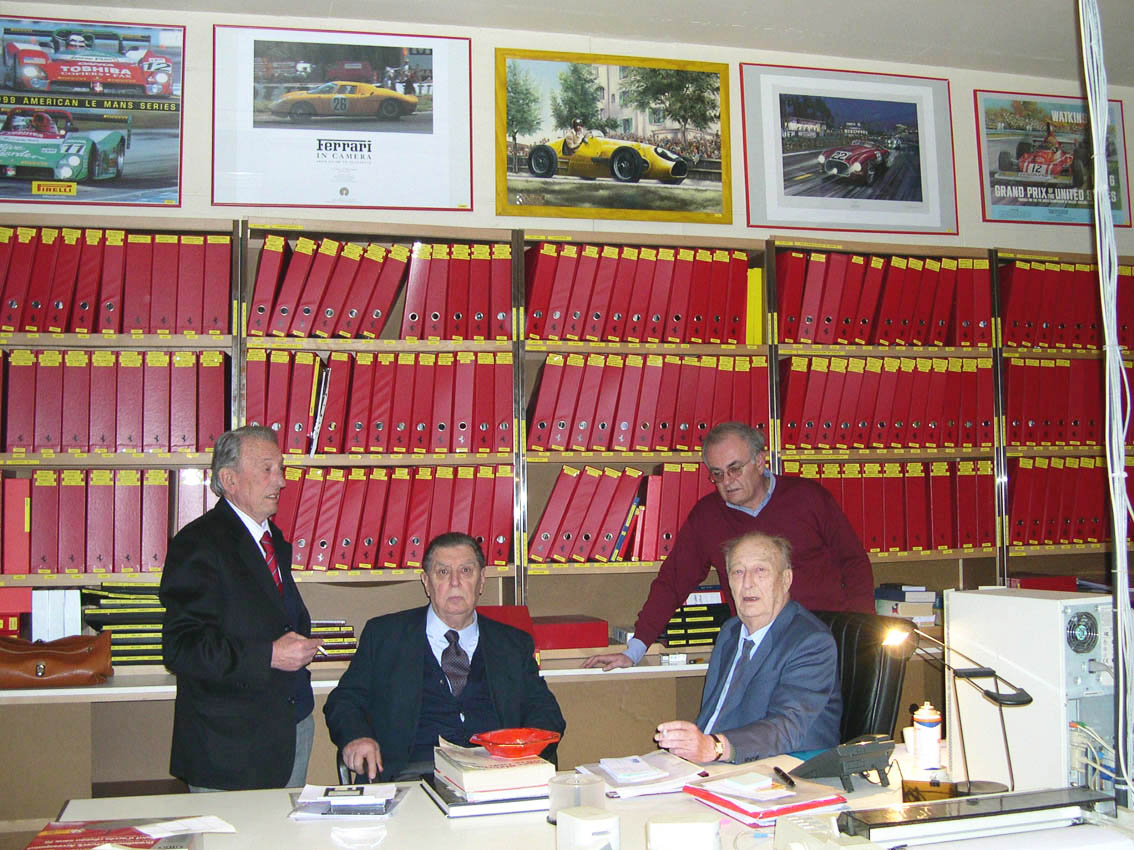 Garage Francorschamp in 2005, Ferrari people (from left to right): Sergio Scaglietti, Ferrari PR chief Franco Gozzi (1932–2013), racecar driver Jacques Swaters (1926–2010) and Ferrari Classic's historian Angelo Amadesi (behind Swaters).